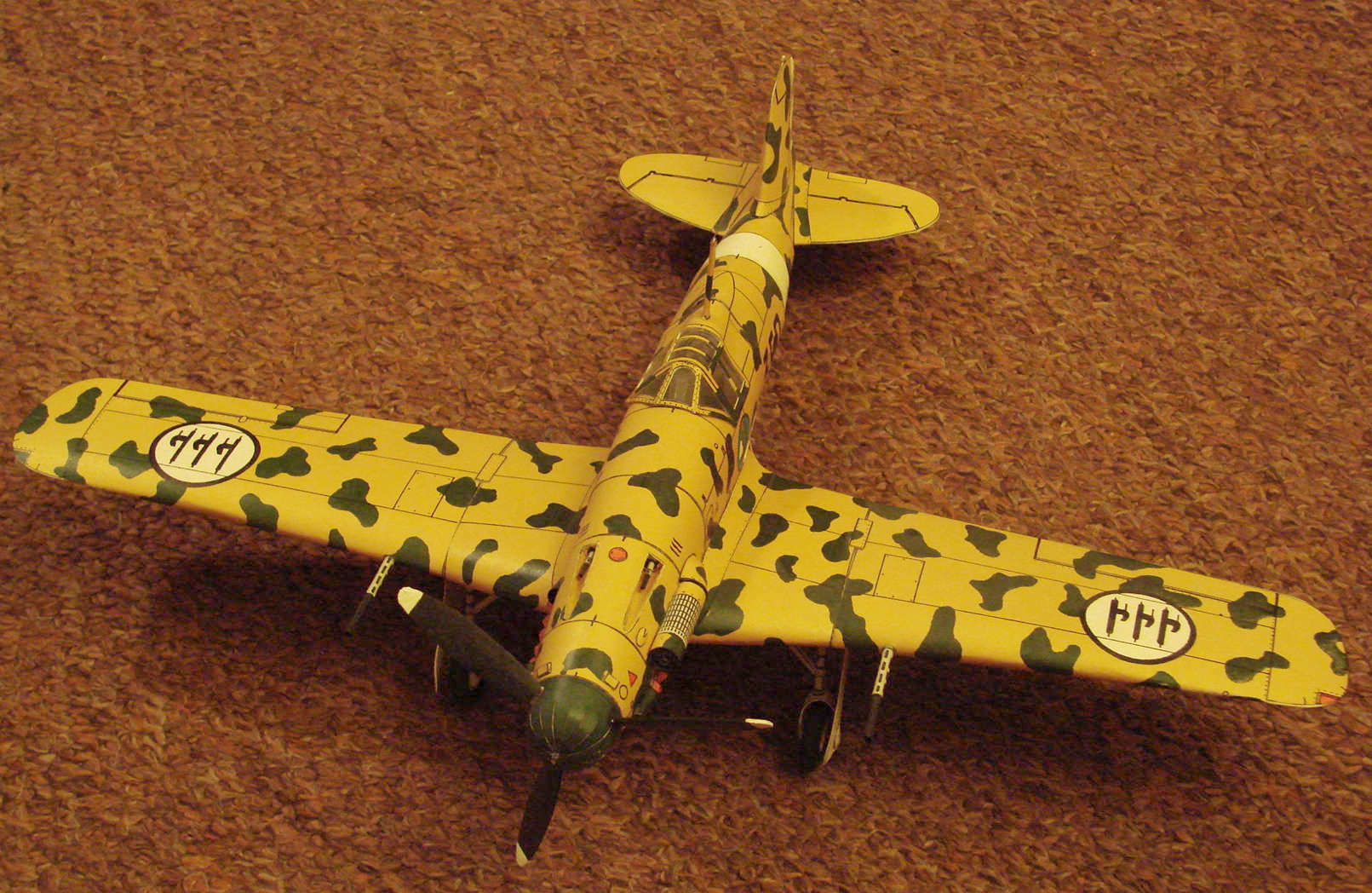 Card model Fiat G.55